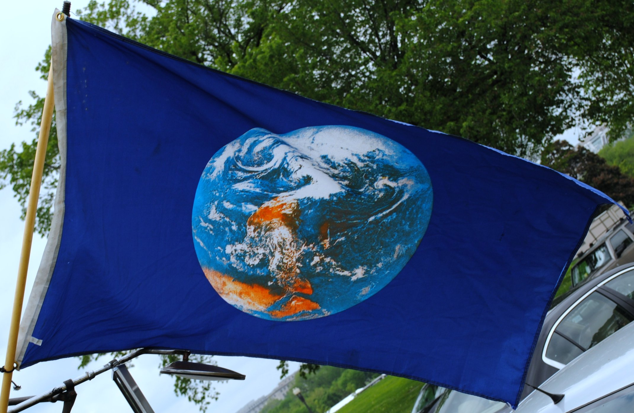 Earth Day Flag